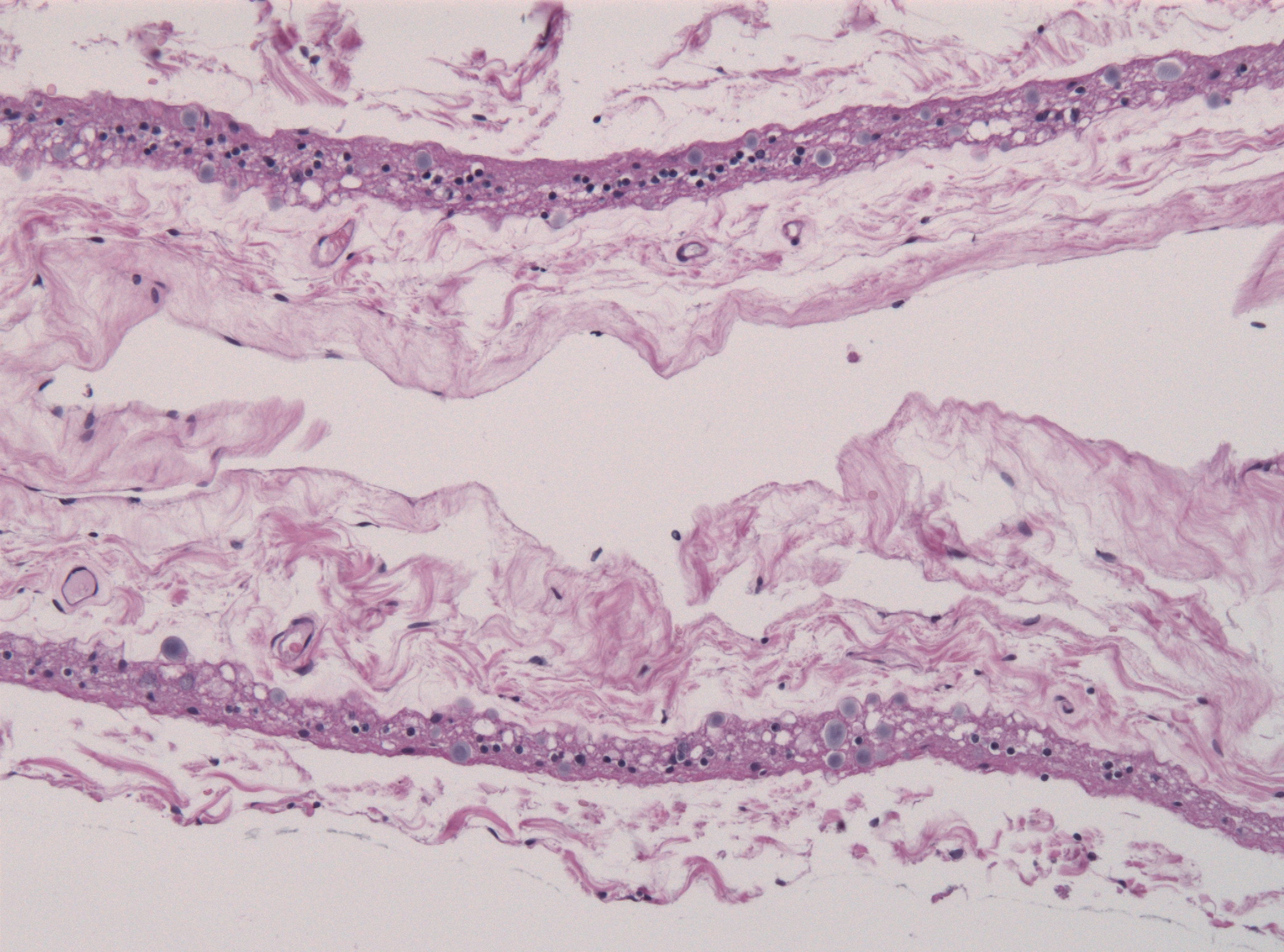 HE stain of a neuroepithelial (glioependymal) cyst